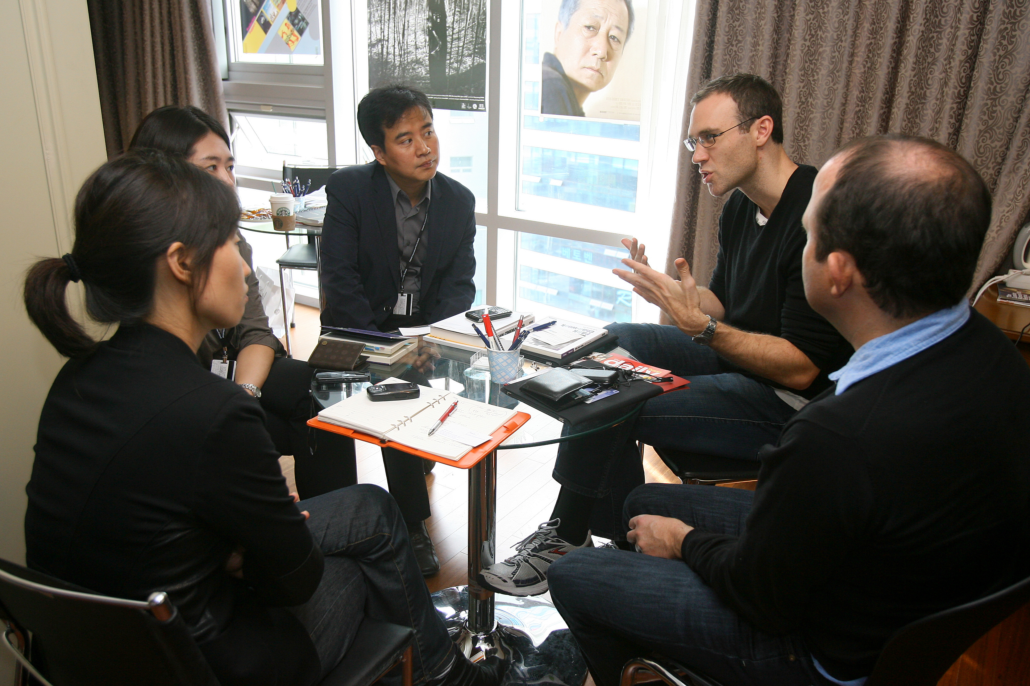 Sales Office at Asian Film Market